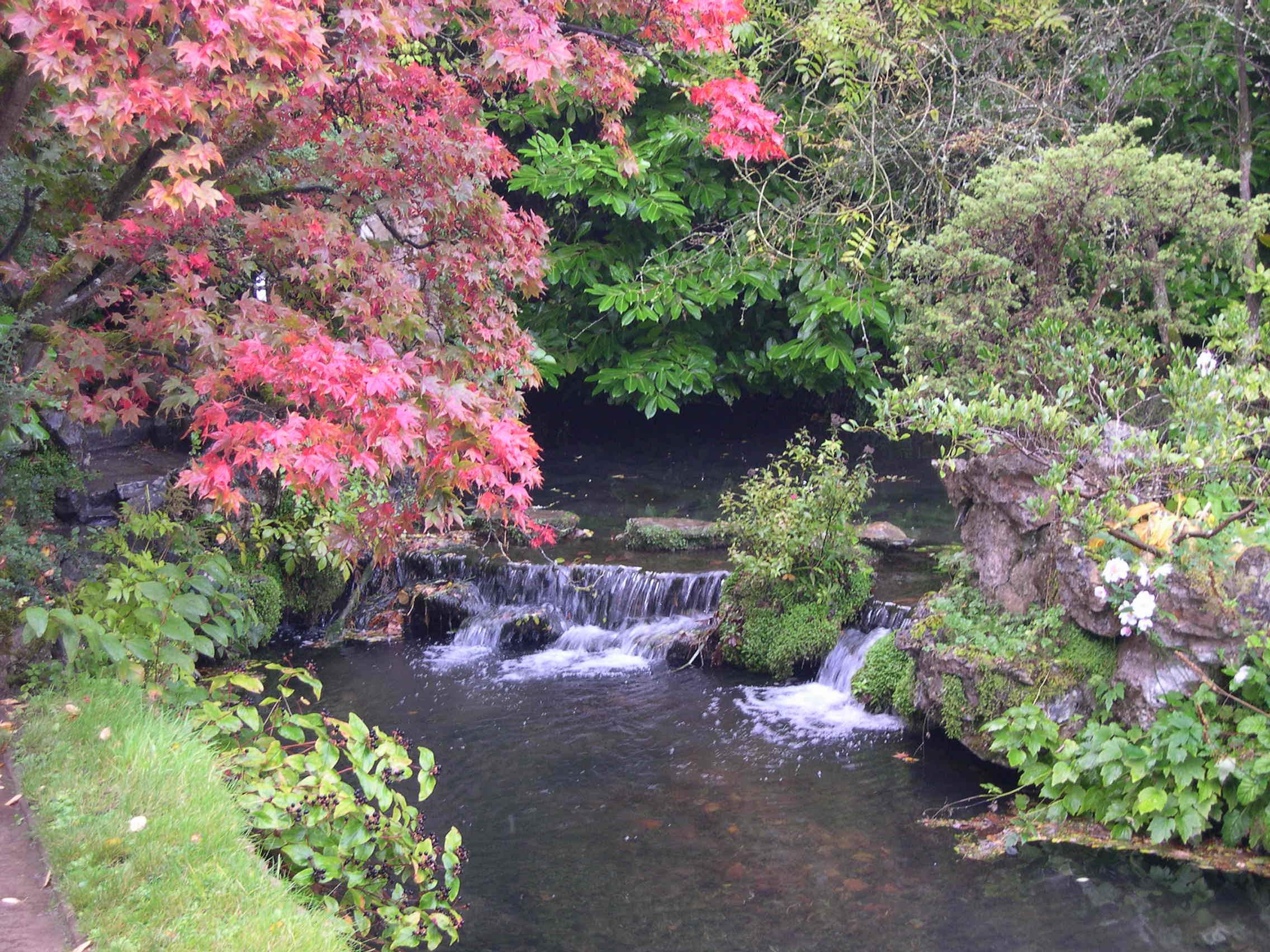 Waterfall, Japanese Garden, Tully, County Kildare, Republic of Ireland